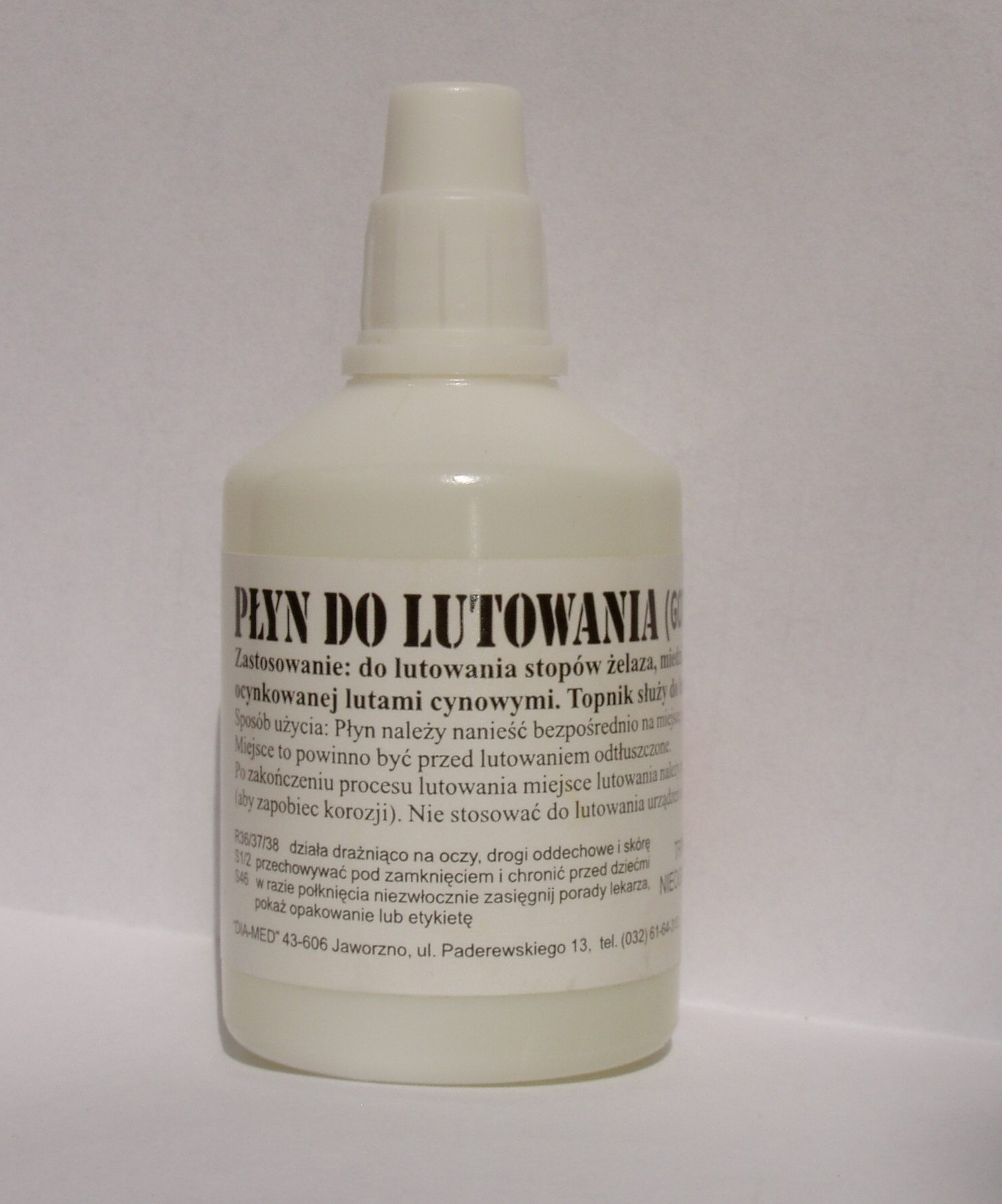 Soldering Acid (Flux) for soldering work. Flux for soldering Stainless Steel and and High-Chrome Alloys.